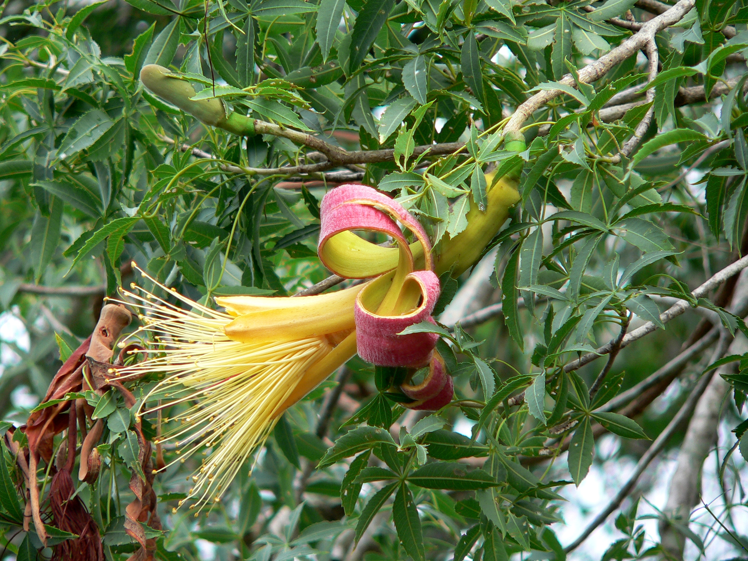 Adansonia rubrostipa (Malvaceae), flower and leaves, spiny forest at Mangily, western Madagascar